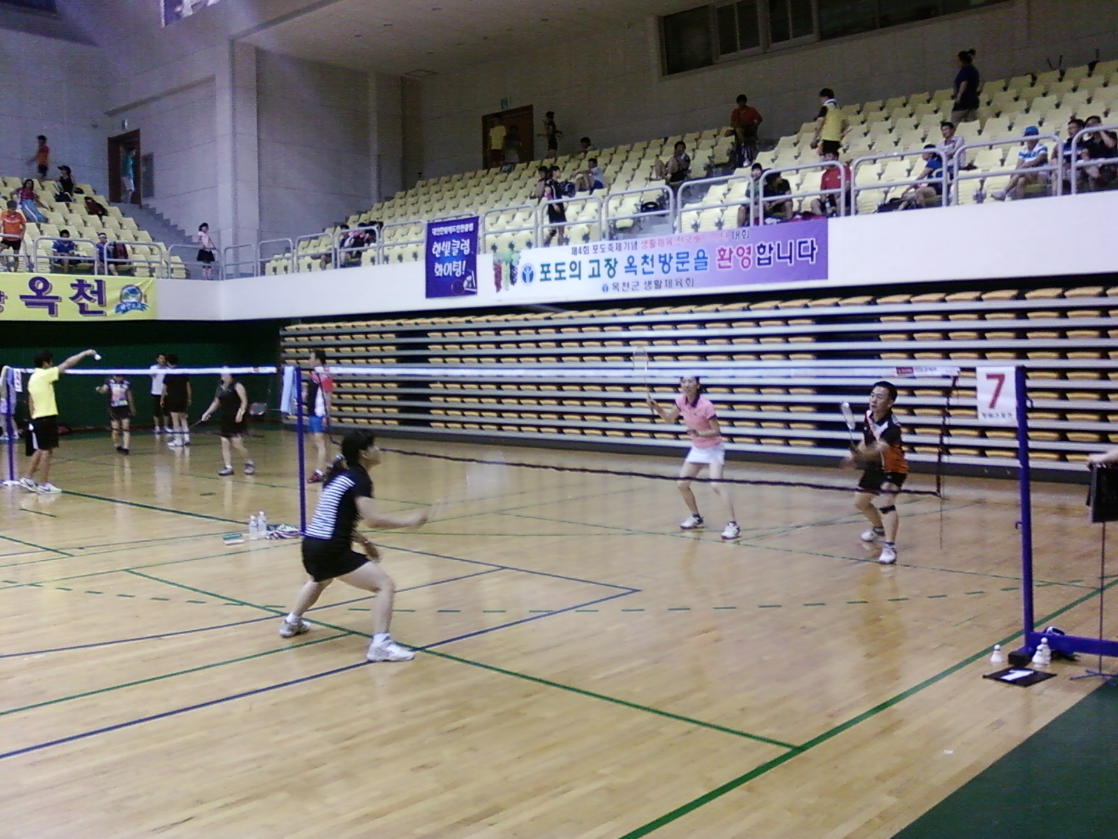 Playing badminton in Okcheon